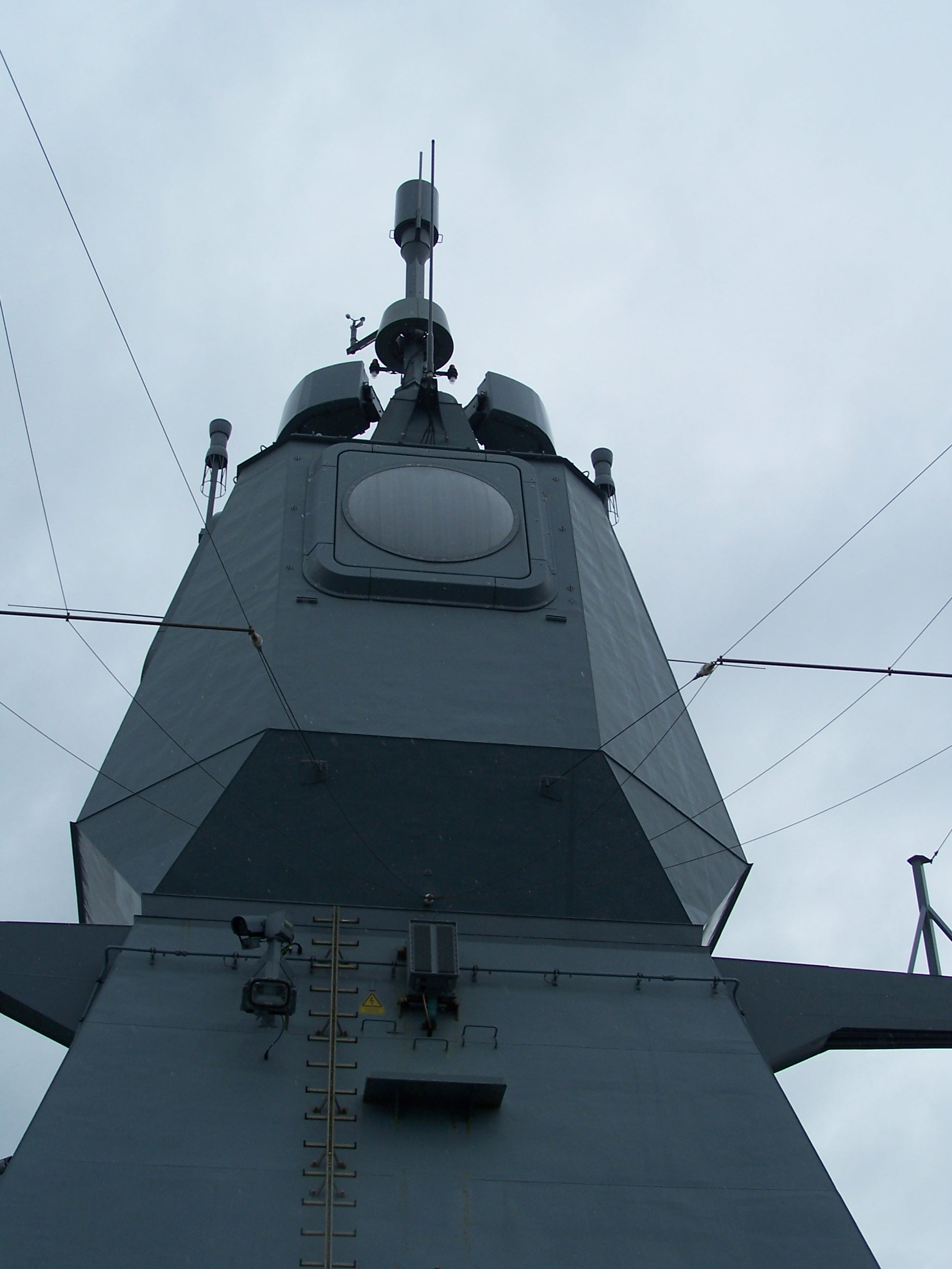 Picture taken during an "Open ship" event onboard F221 Hessen of the German Navy